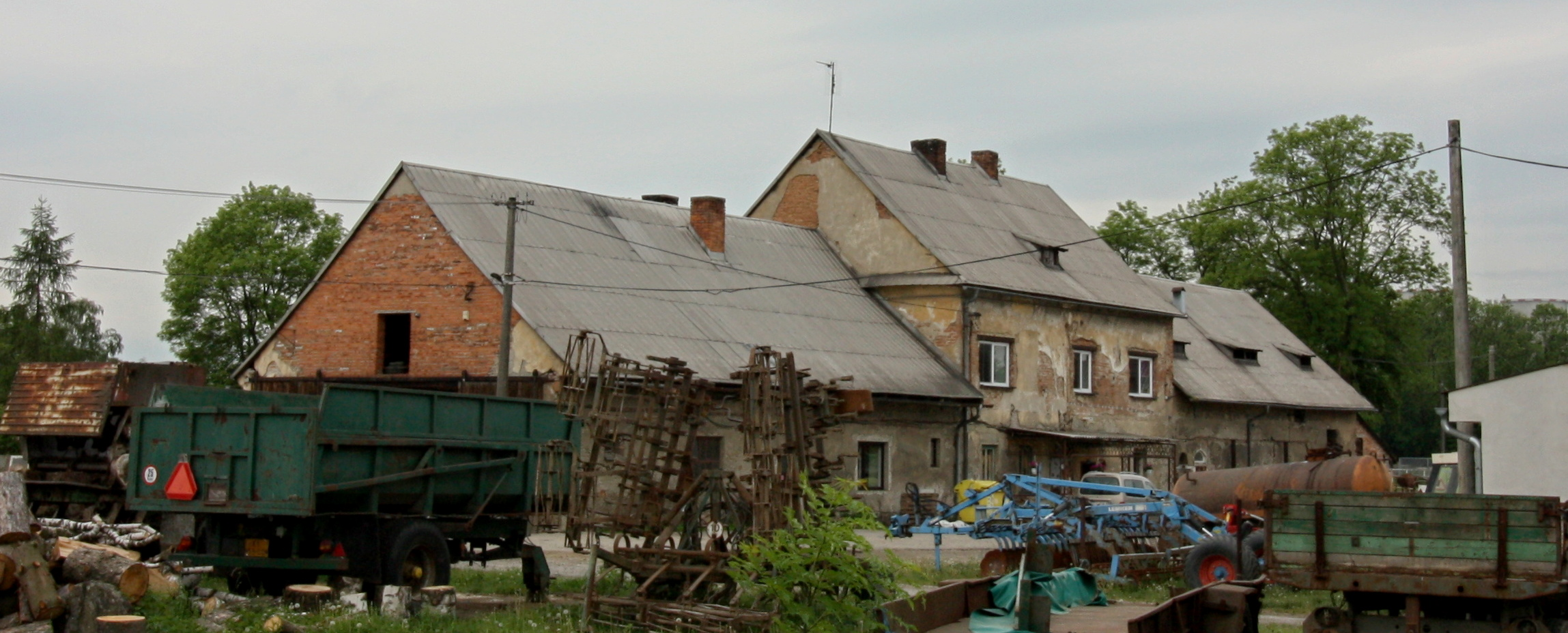 Former chaetau in Závada (Petrovice u Karviné), Karviná District, Moravian-Silesian Region, Czech Republic